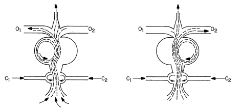 Fluidic amplifier - flow diagram From U.S. Patent #4,000,757.